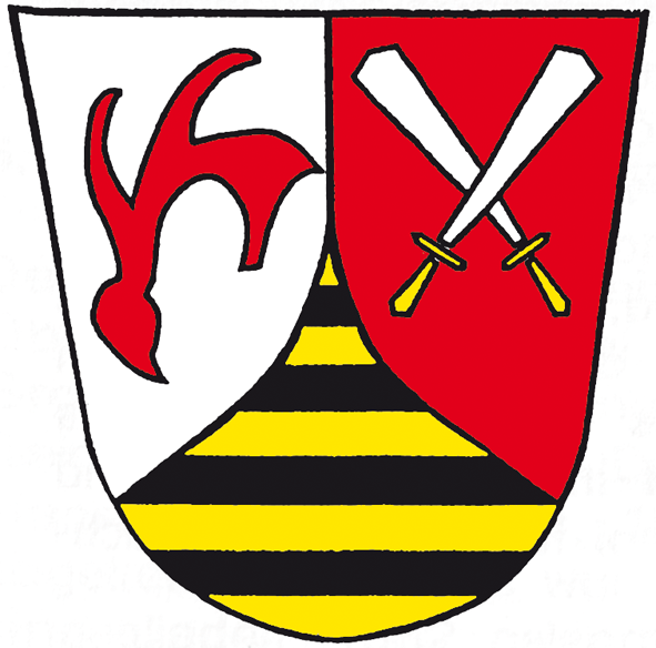 Coat of arms of Landkreis Quedlinburg